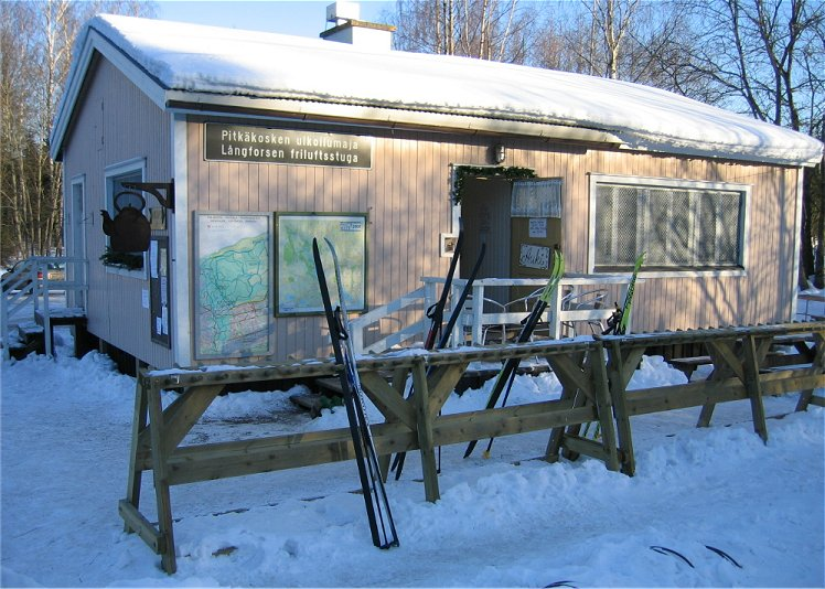 Pitkäkoski outdoor hut with cafe, in Hakuninmaa district in NW Helsinki, Finland.